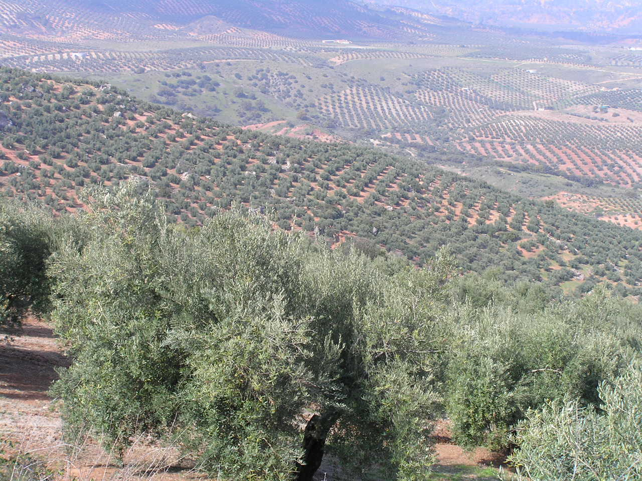 Un mar de olivos,el paisaje característico de Beas